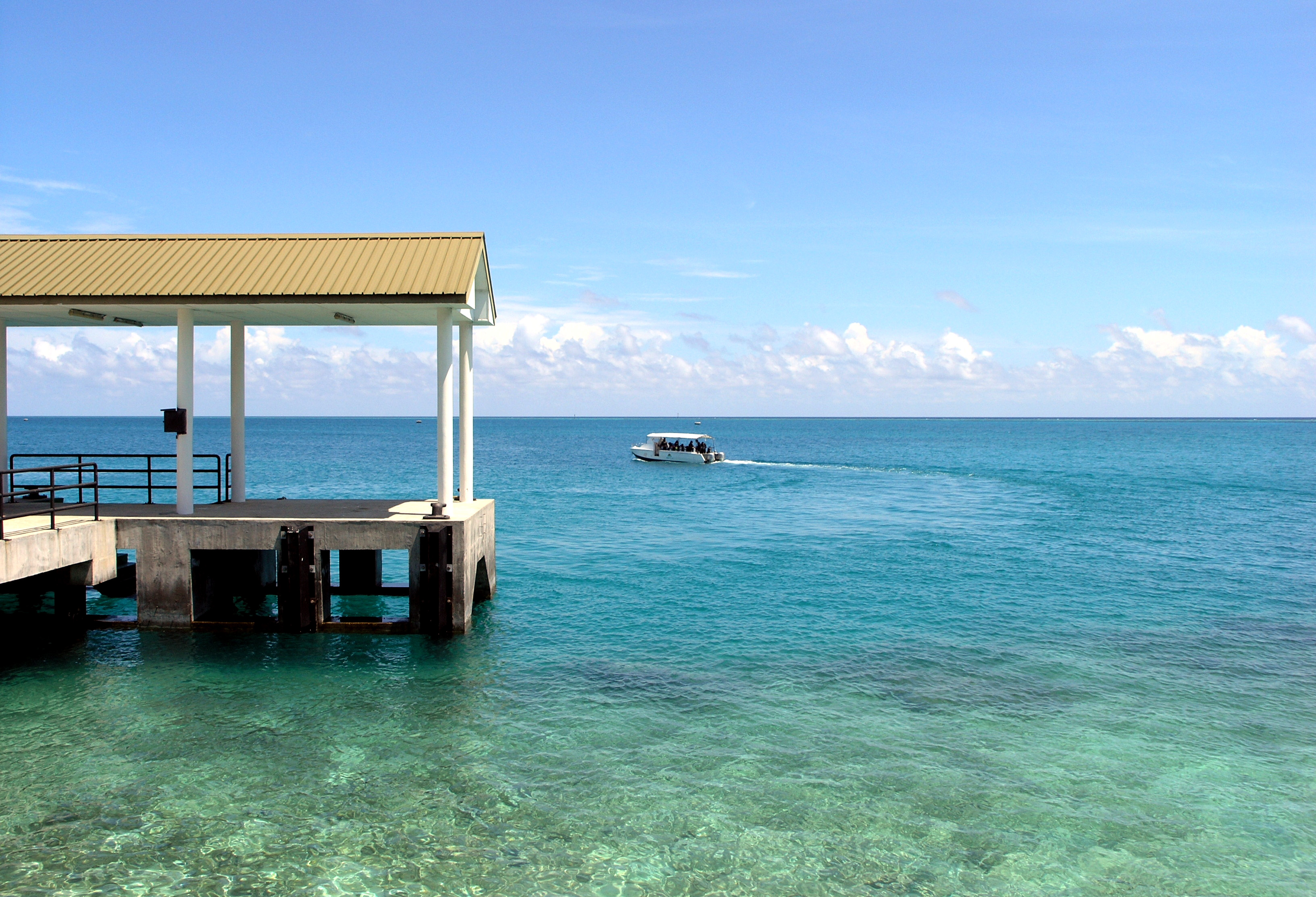 Swallow Reef (Pulau Layang-Layang) in Spratly Islands, South China Sea